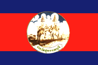 Flag of the Suphan Buri province, Thailand. It consists of a blue and red triband (ratio: 1:3:1) charged with the provincial seal.